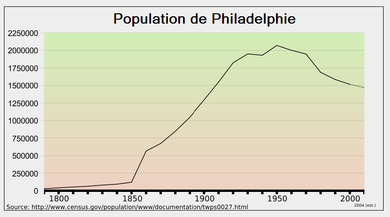 Philadelphia's population (1800-2010).